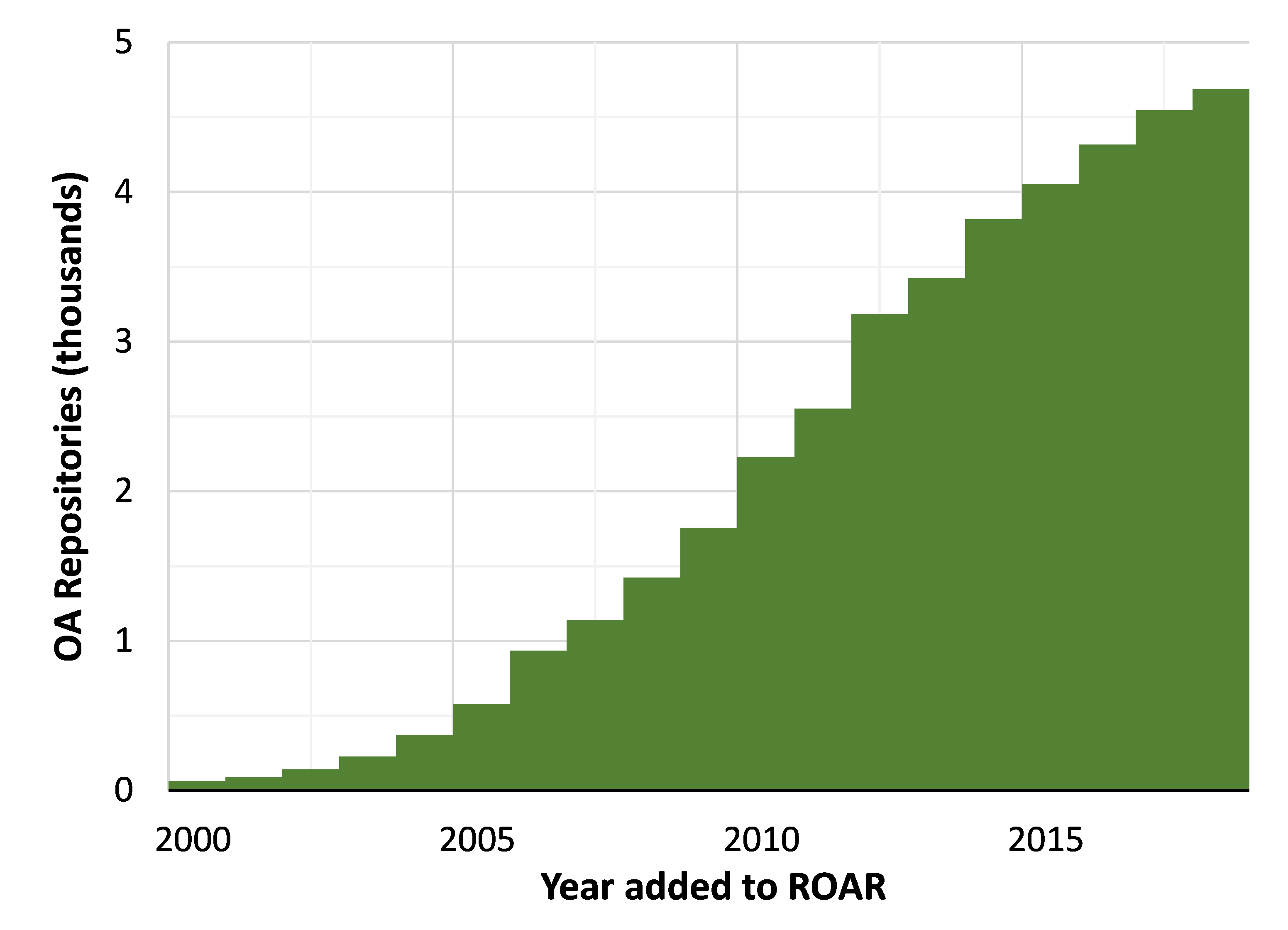 Growth in OA repositories listed in ROAR Registry_of_Open_Access_Repositories From